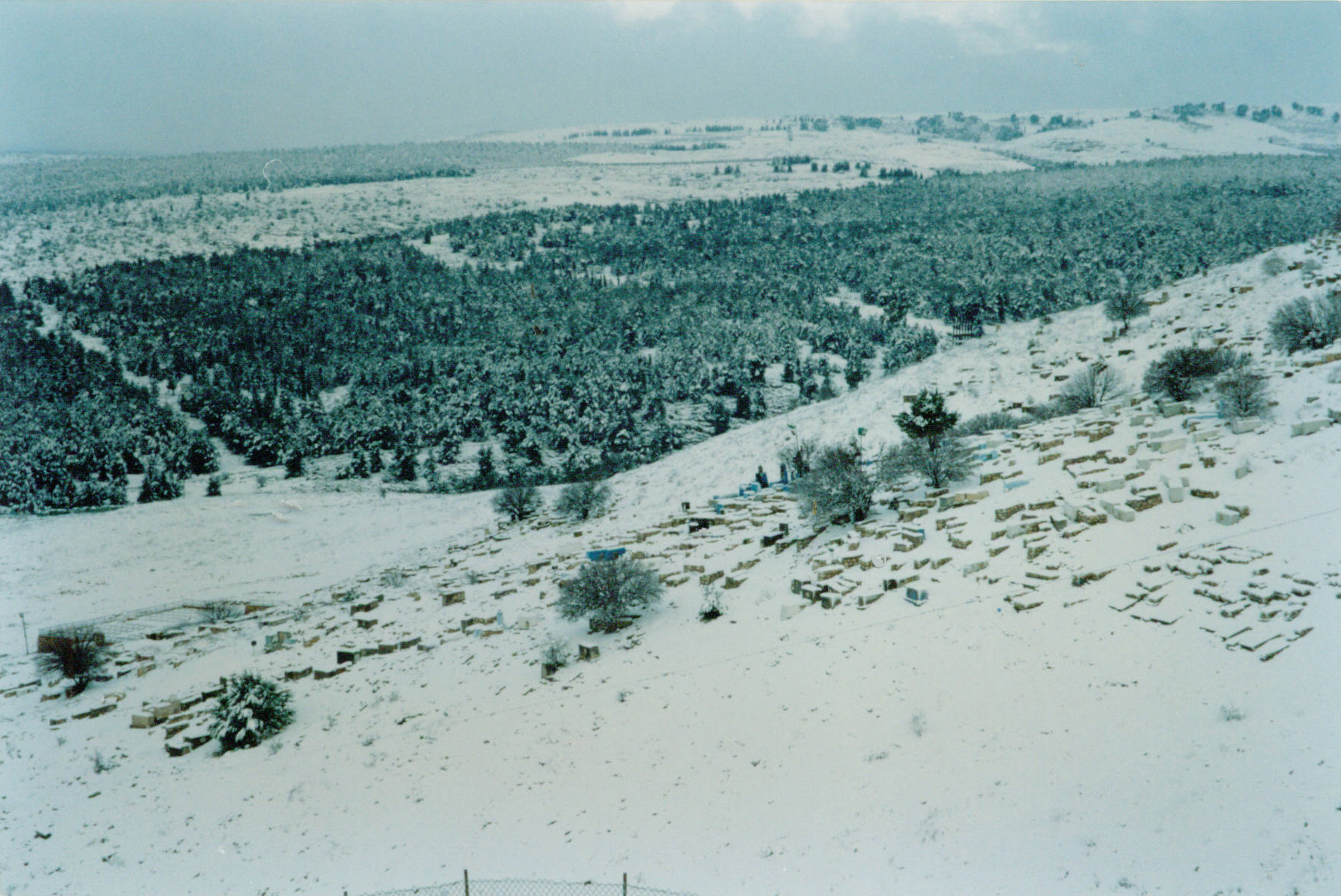 The picture you can see the white-covered mountains of Safed, and the cemetery of Safed is also covered with white.